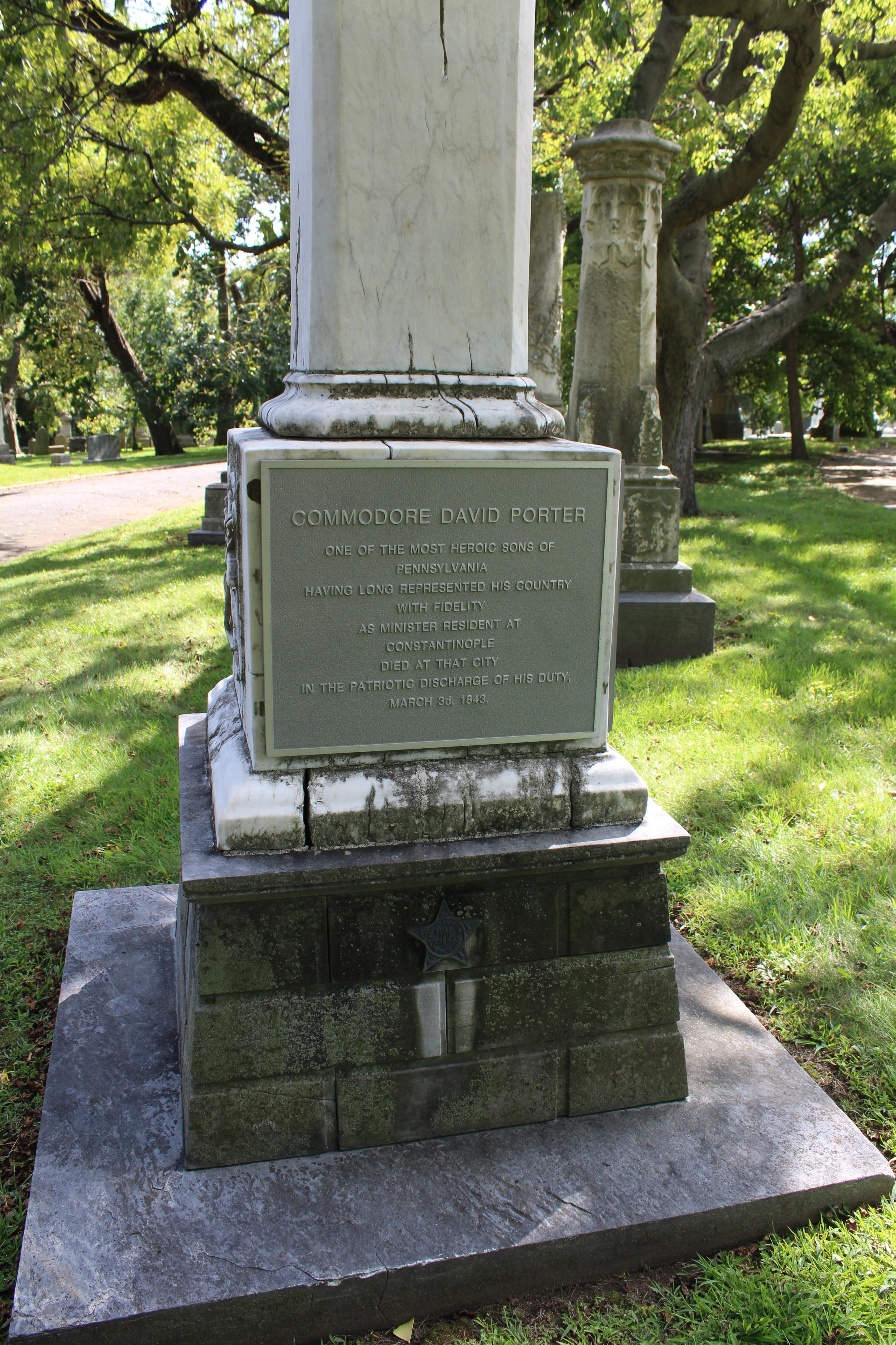 Front of Commodore David Porter Memorial at the Woodlands cemetery in Philadelphia, Pennsylvania. Photo taken August 2019.